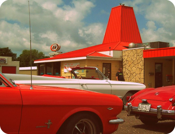 This was taken at the annual Cruisin' the 'Dub car show, in 2010.